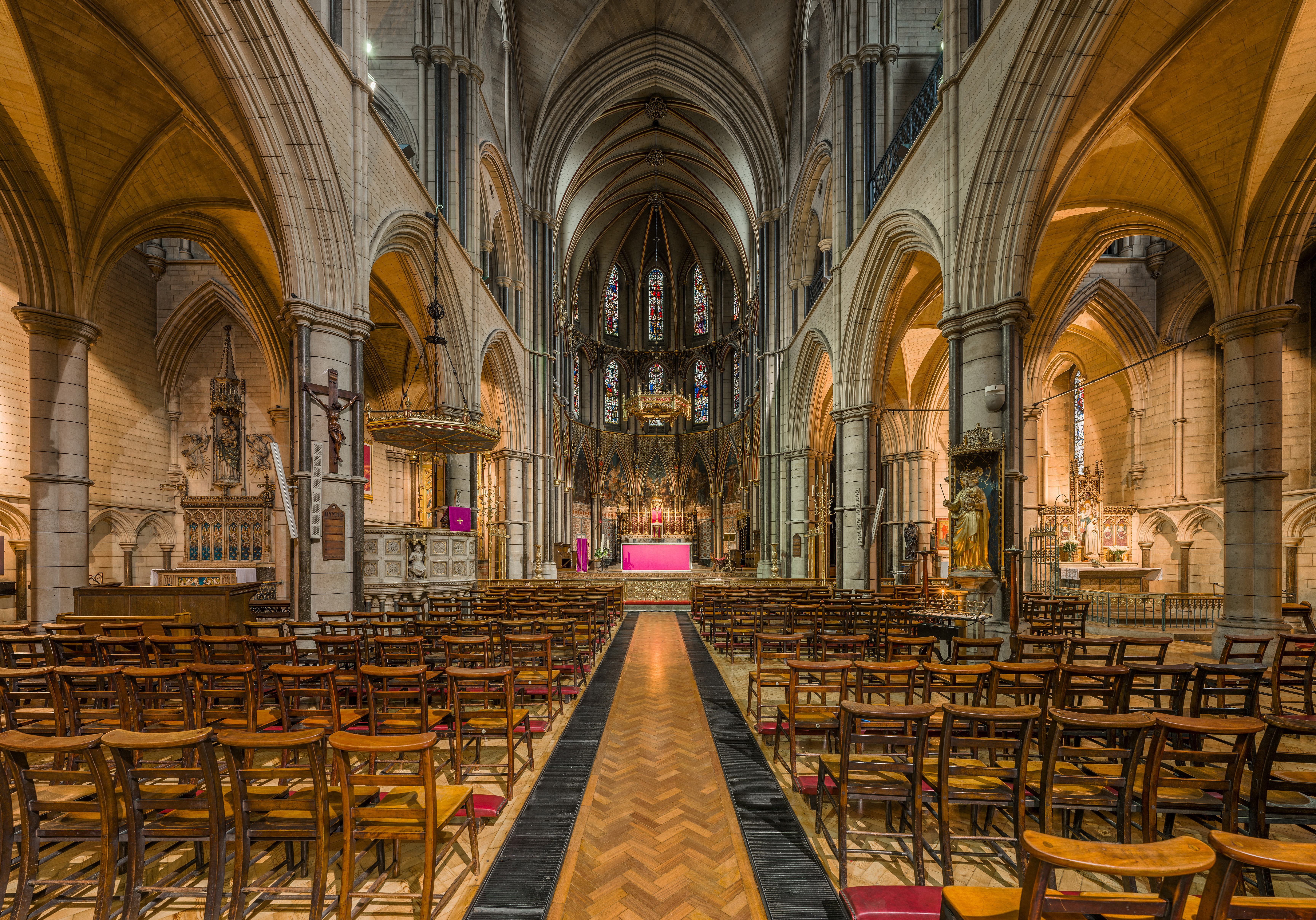 The interior of St James's Church, Spanish Place in London, England, viewed from the middle of the church looking west toward the altar.